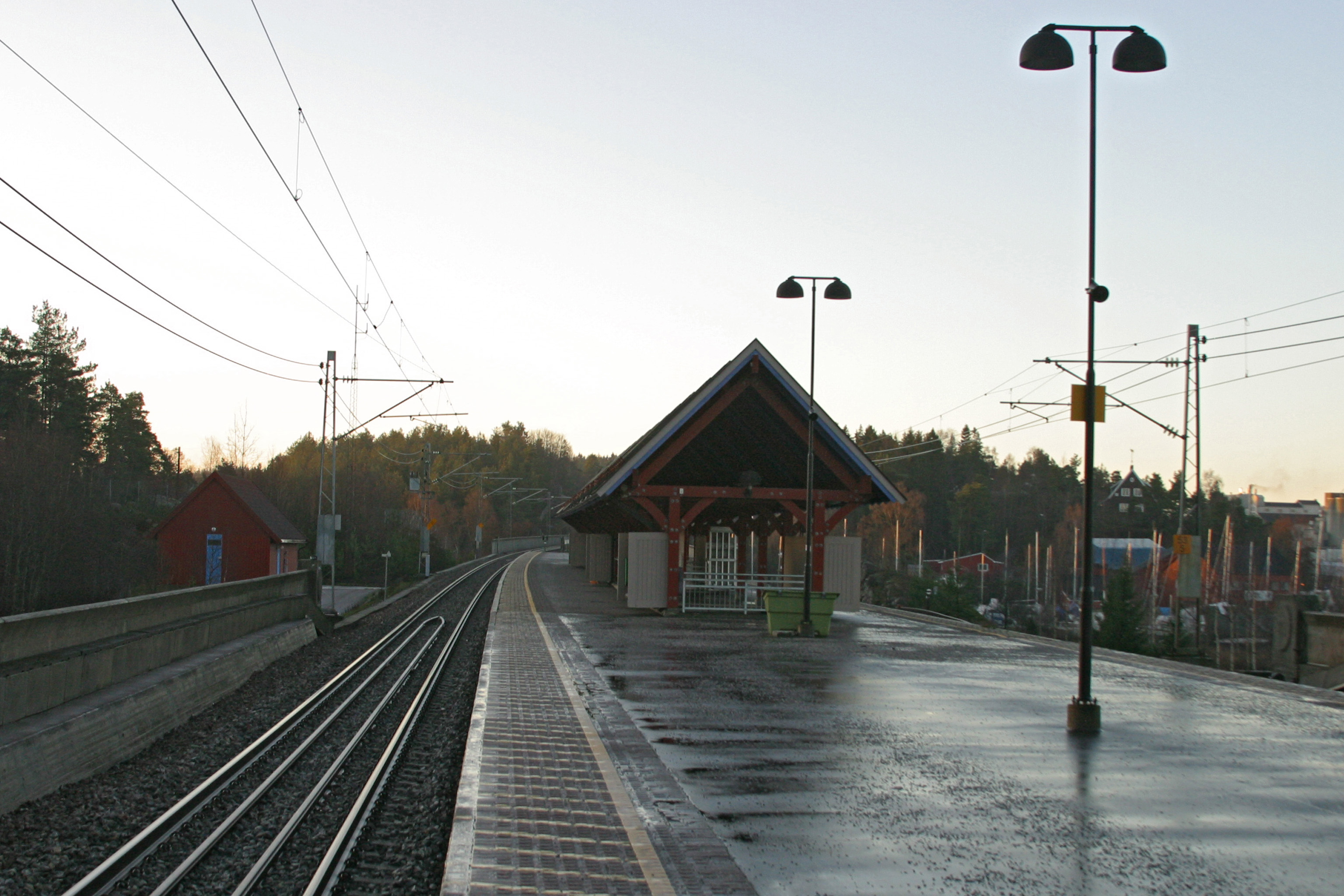 Picture of Kambo Railway Station (Norway)